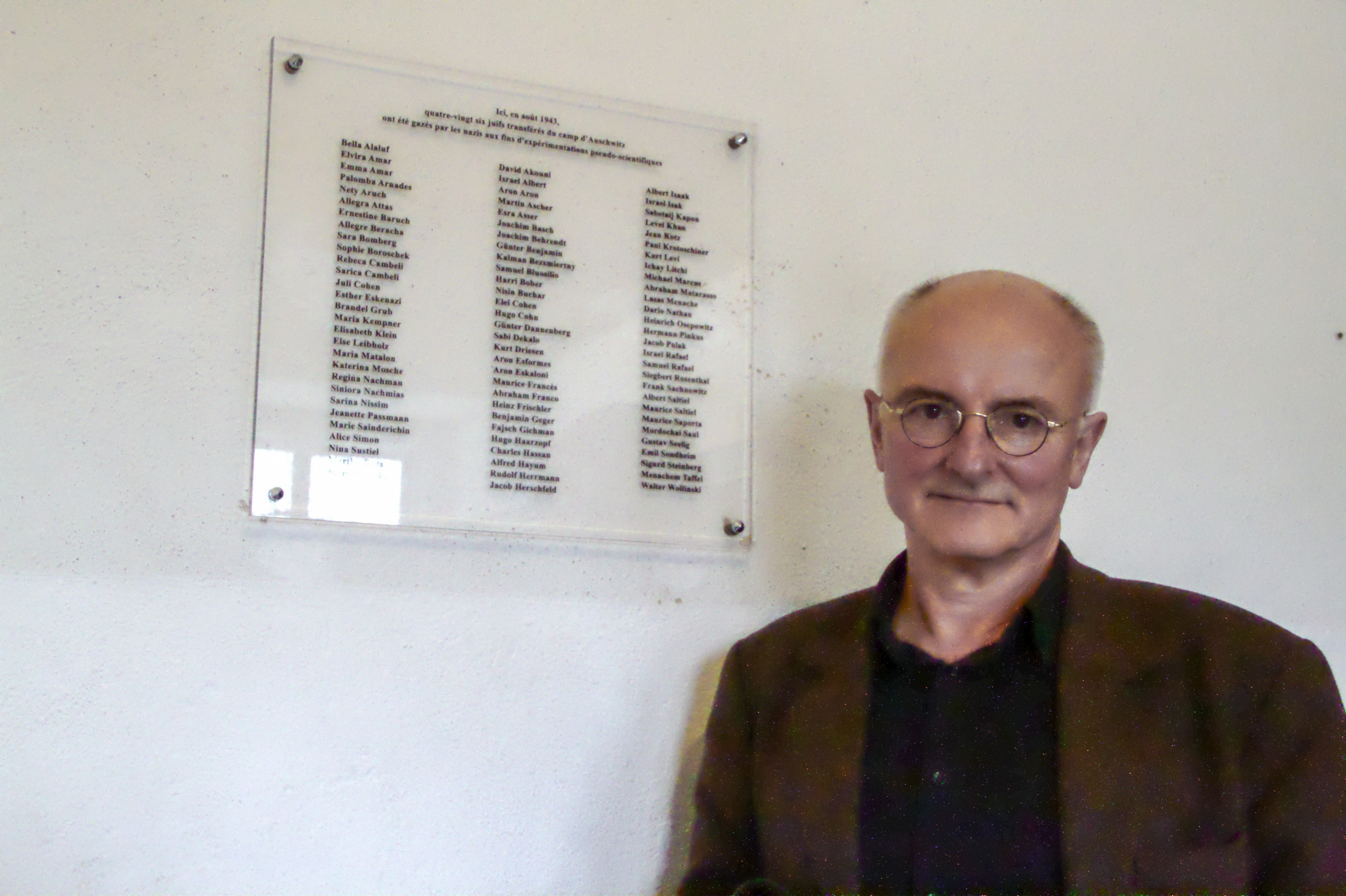 The historian Hans Joachim Lang in front of the plaque in memory of 86 Jews gassed by Professor Hirt in August 1943 in the gas chamber of Natzwiller-Struthof concentration camp.